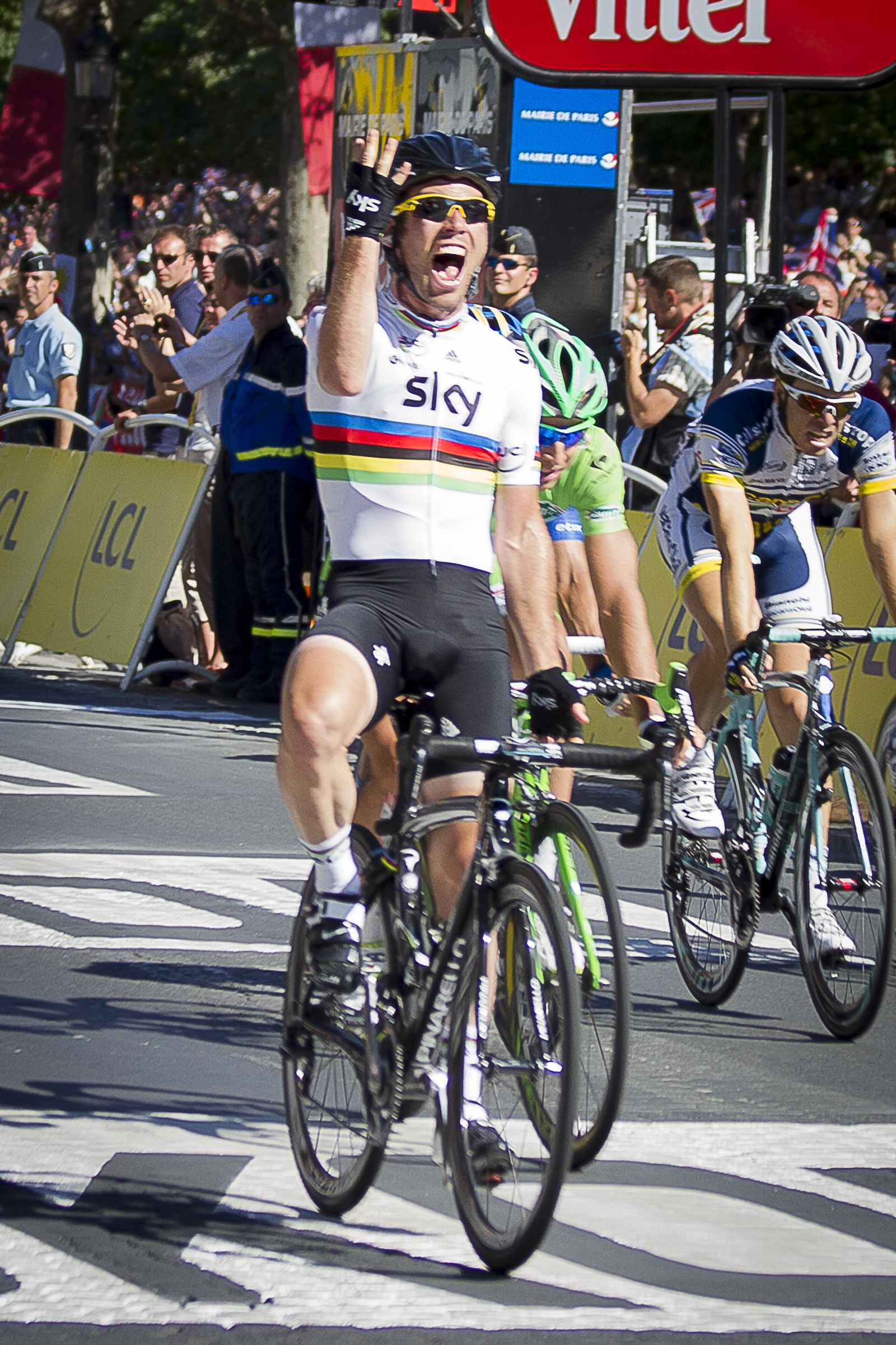 2012 Tour de France, Stage 20.